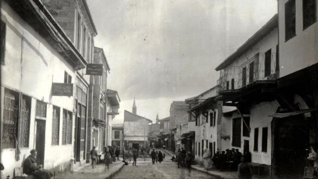 Sivas 1927, Turkey